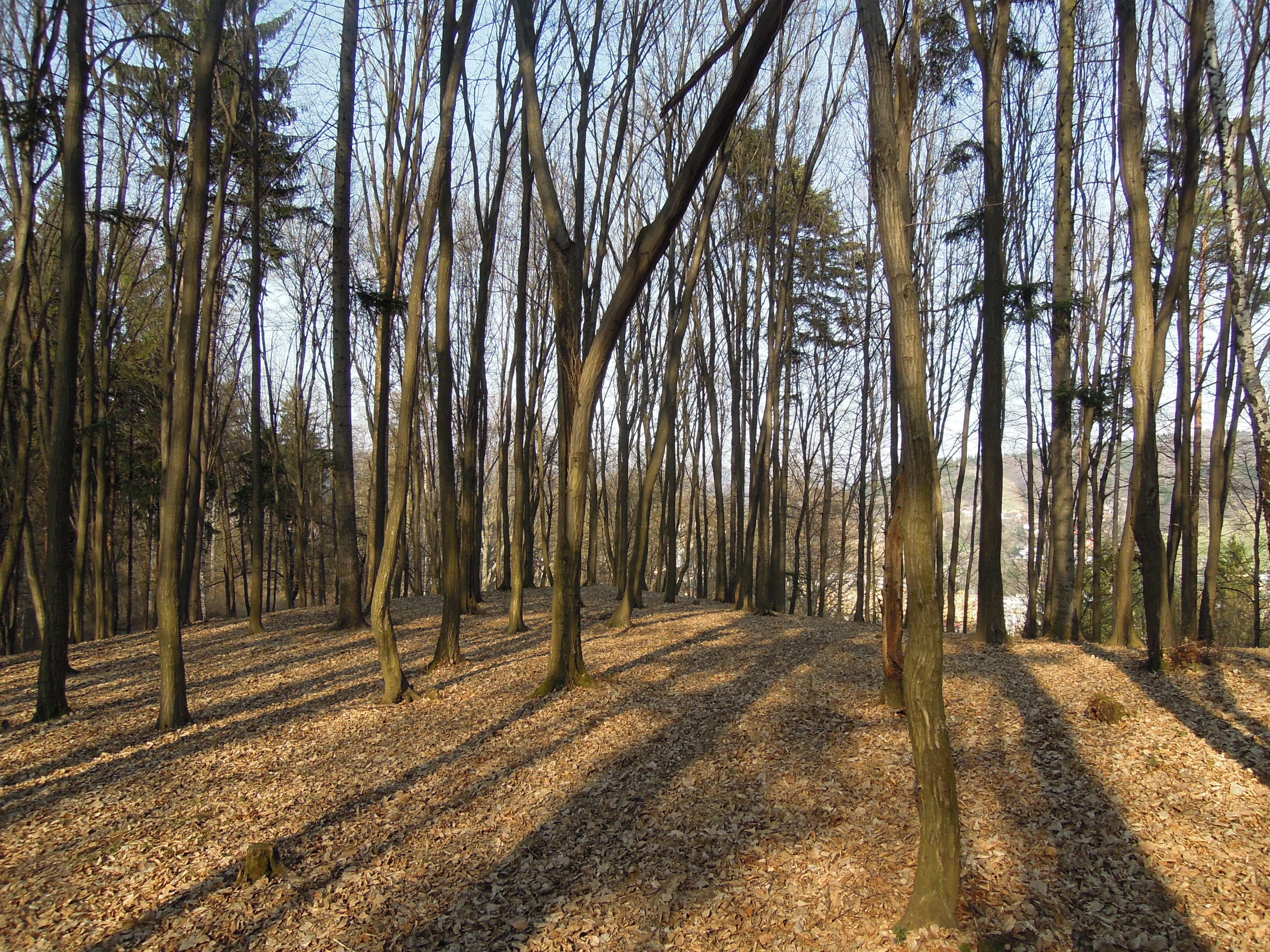 Bečevná natural monument in Vsetín, Vsetín District, Zlín Region, Czech Republic